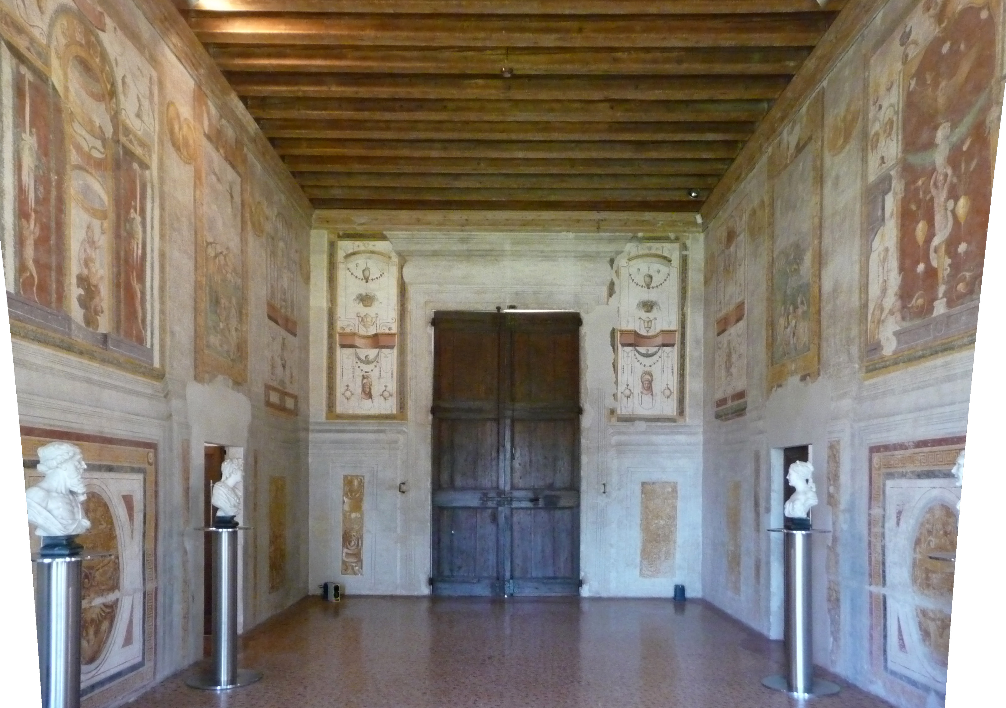 Villa Badoer in Fratta Polesine, province of Rovigo, Italy, designed by Andrea Palladio in 1554 and built 1556-1563.